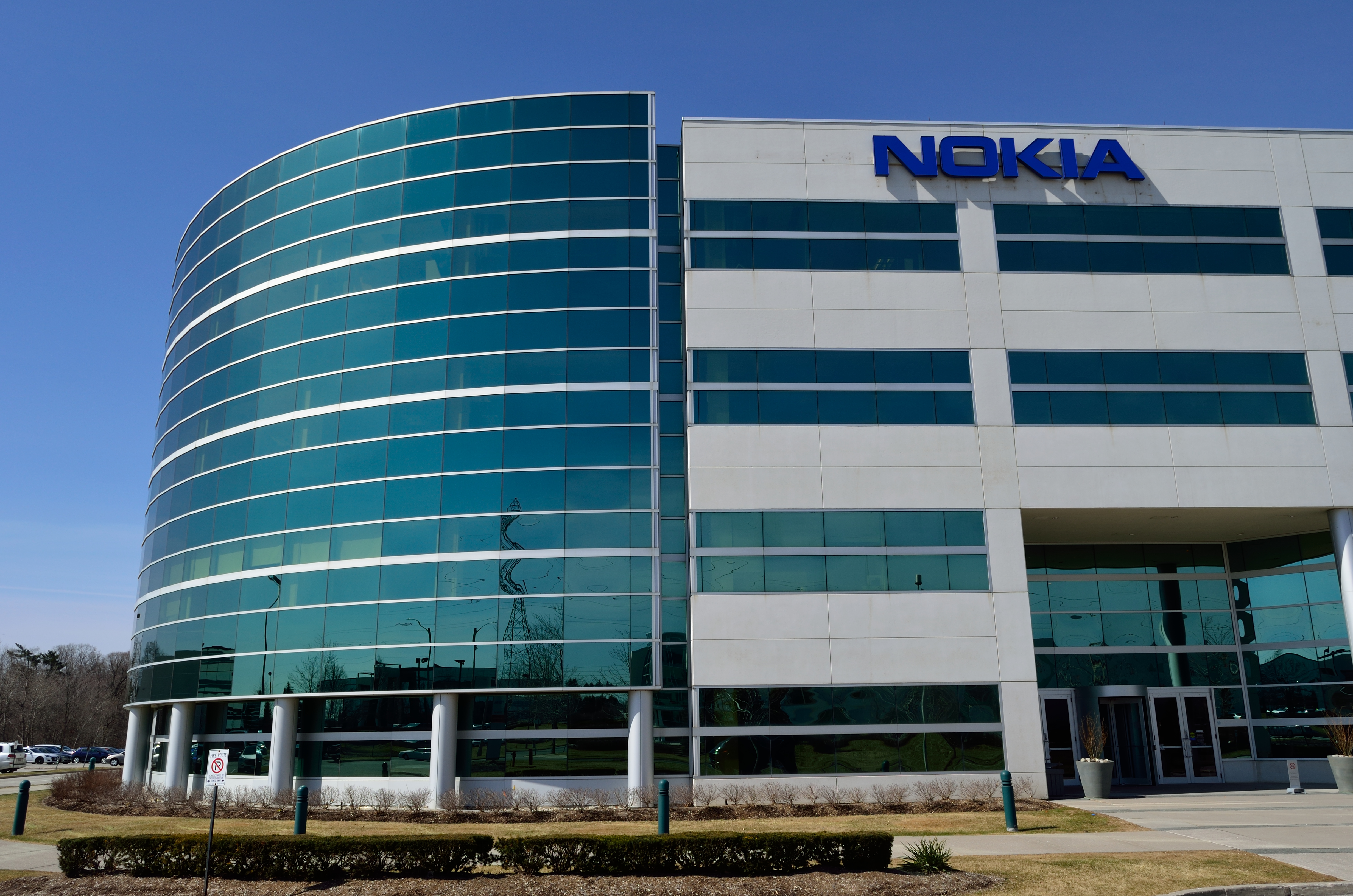 Nokia office building in Markham, Ontario.